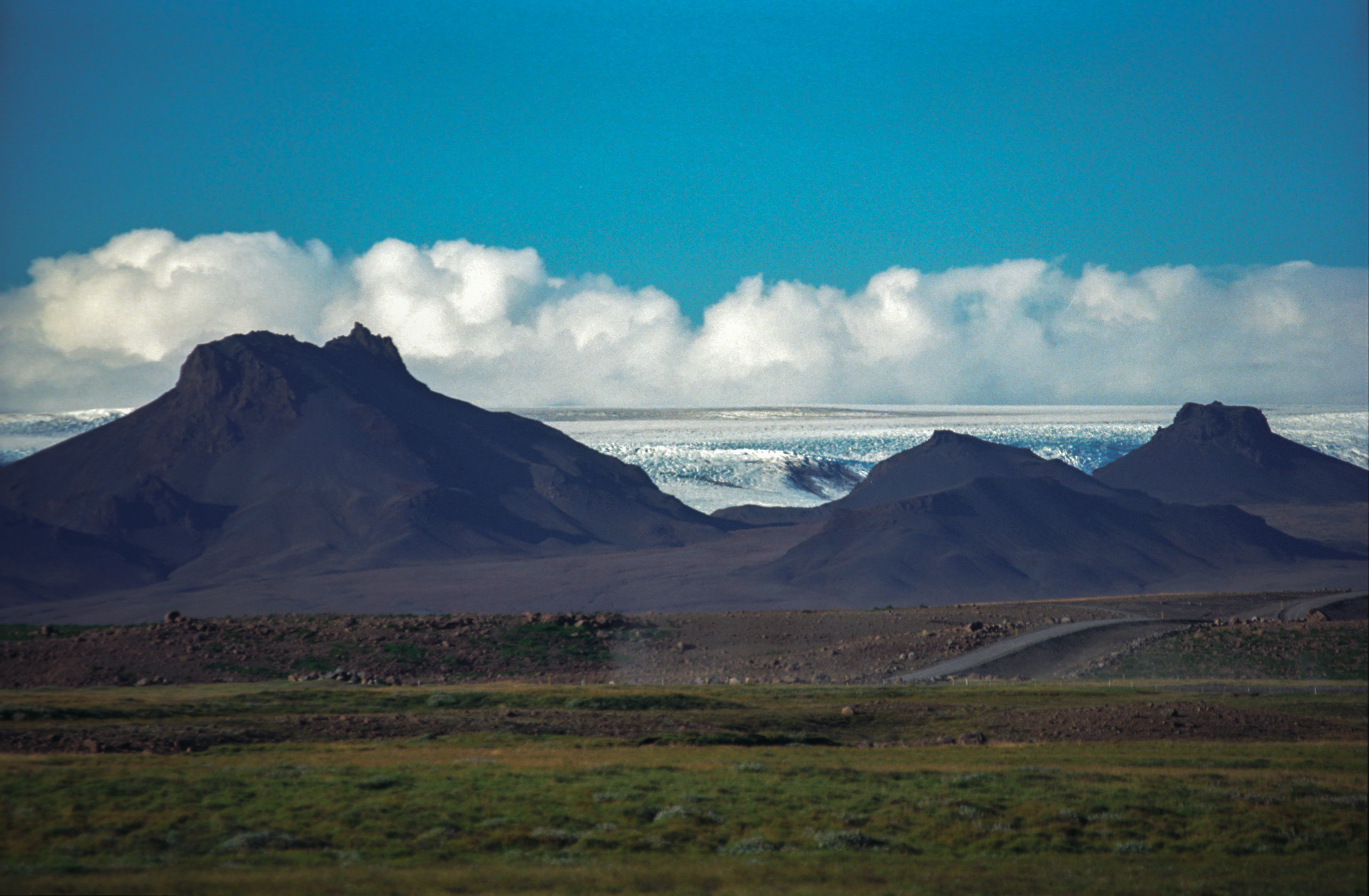 Langjökull Glacier